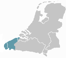 Map of the distribution of the dialect West Flemish in the Low countries.